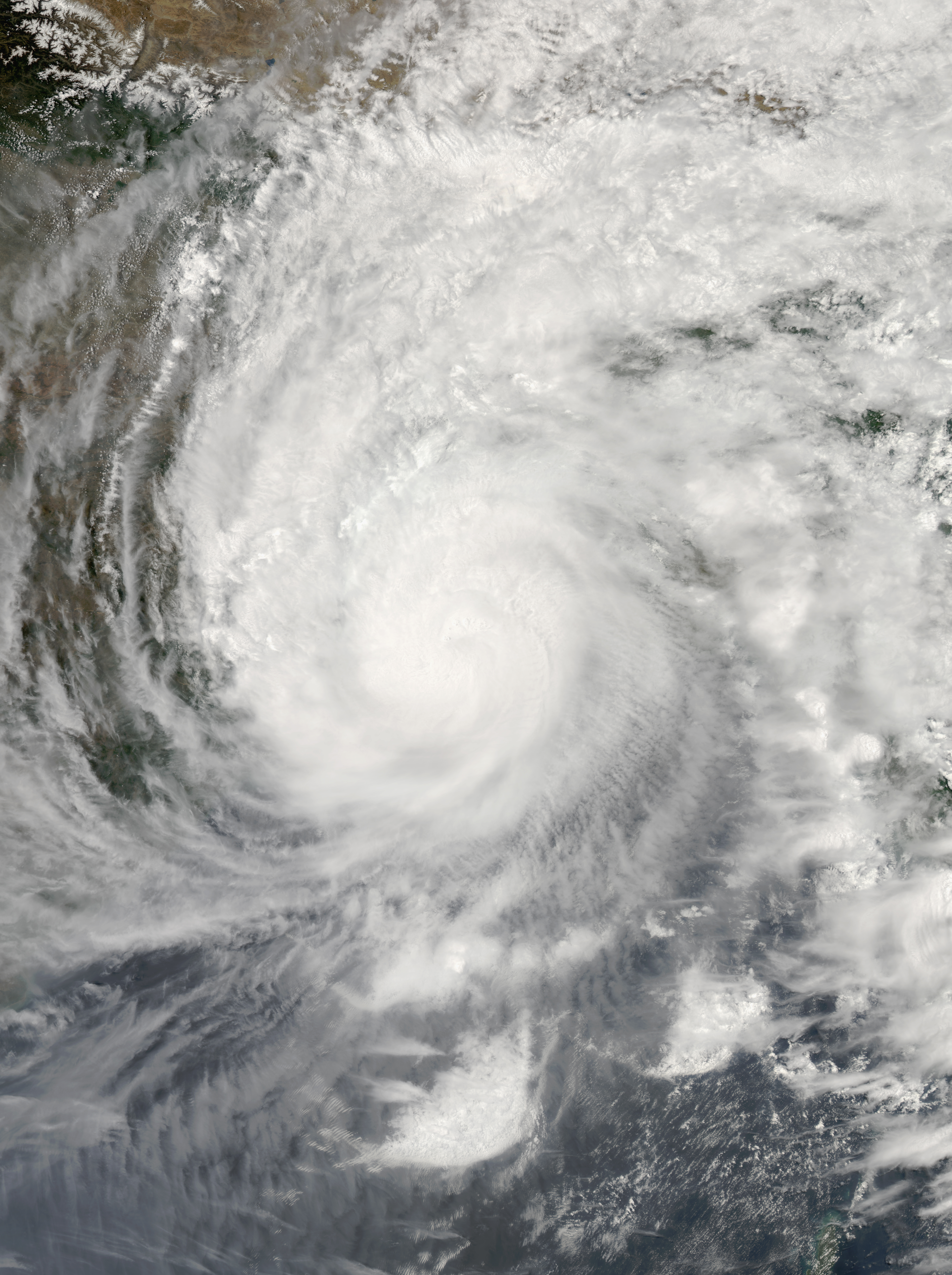 Cyclonic Storm Amphan on May 20, 2020